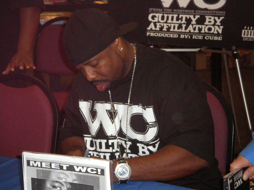 WC signgs autographs at Lakewood Wherehouse.WC signs autographs